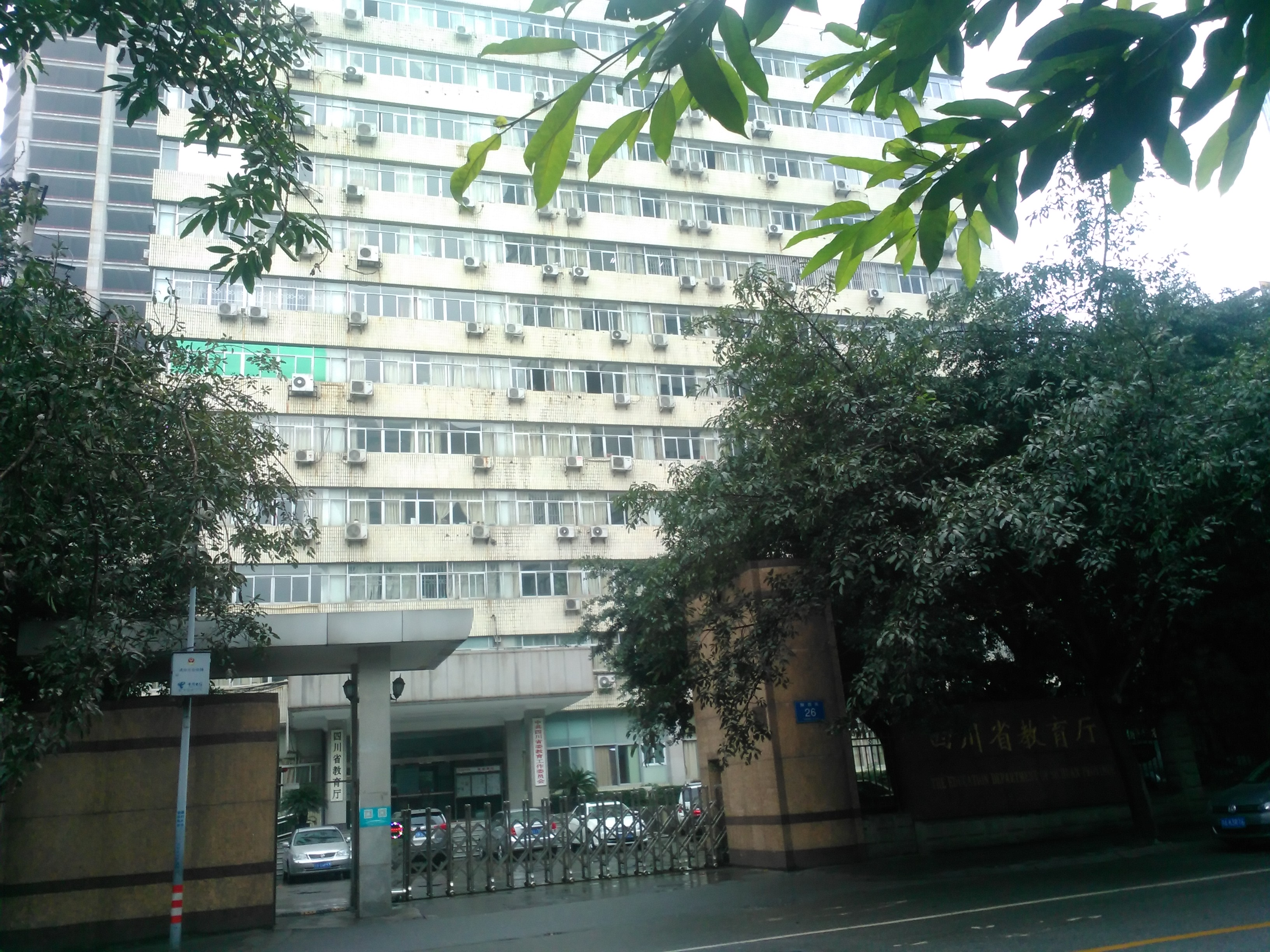 Sichuan Education Department